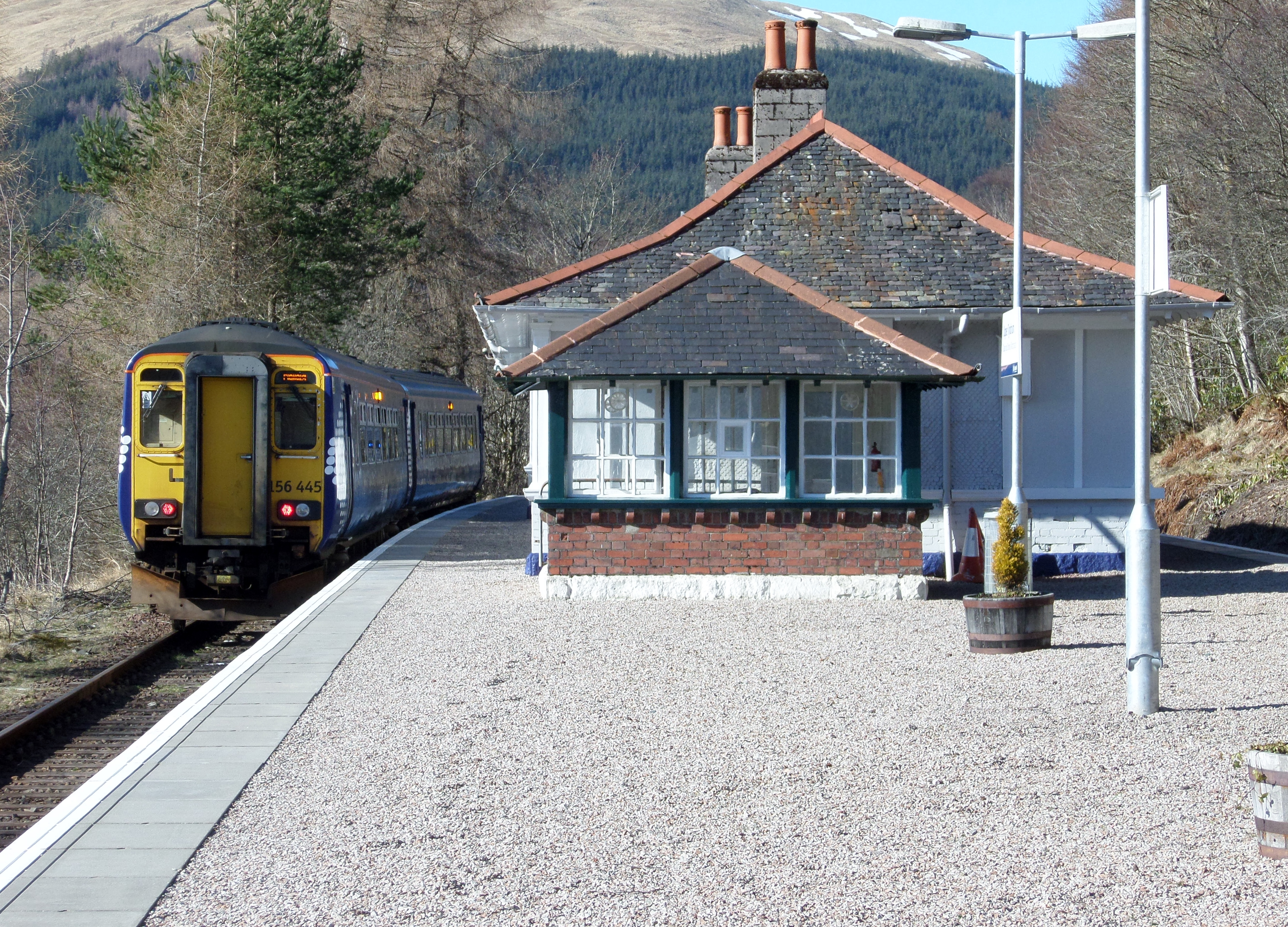 Upper Tyndrum Railway Station with a train from Mallaig. Strathfillan, Sterling, Scotland. In use as offices for the Cononish Gold Mine